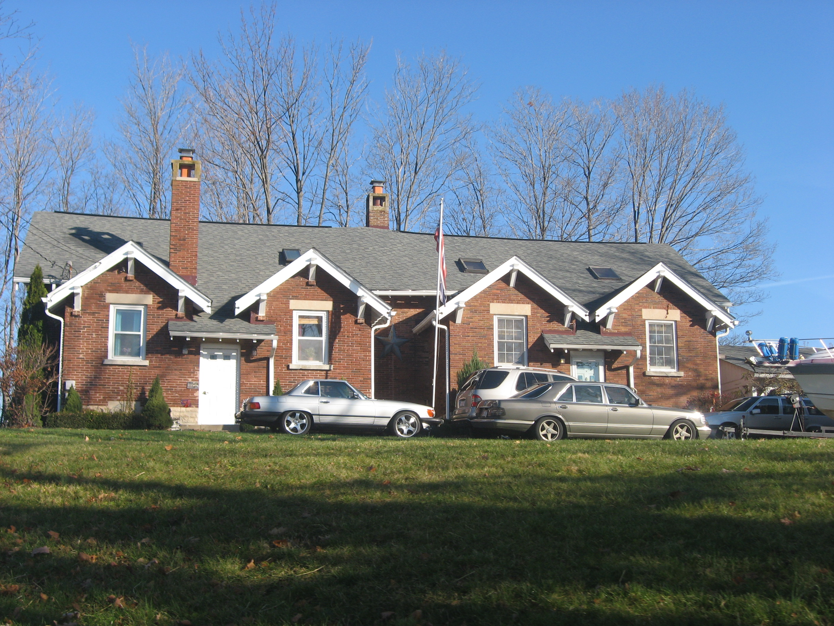 Front of the former Handy School, located at 5735 Handy Ridge Road in Perry Township, Monroe County, Indiana, United States. It was built in 1912 and has since been converted into a house.